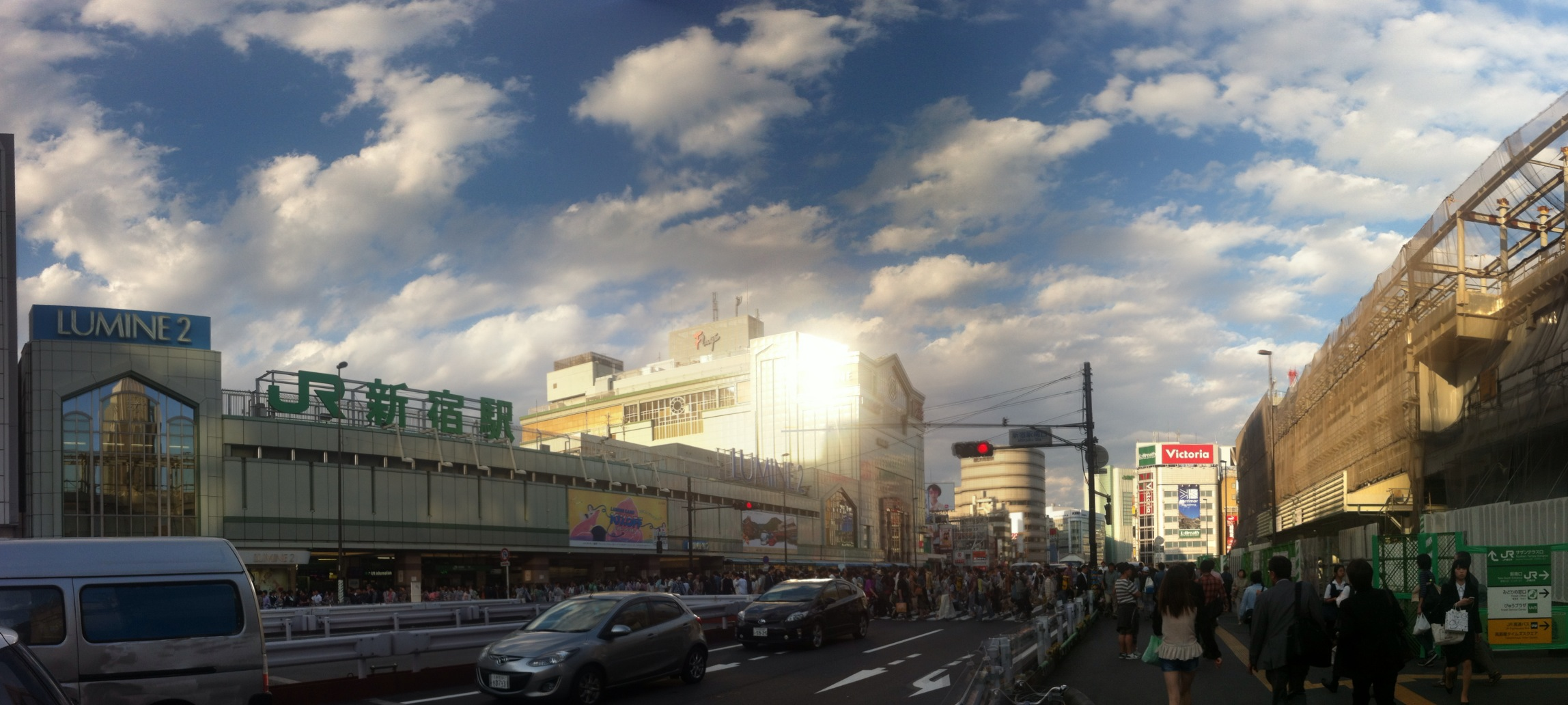 (Left) Shinjuku south ticket gate (right) under construction Southern Terrace ticket gate.